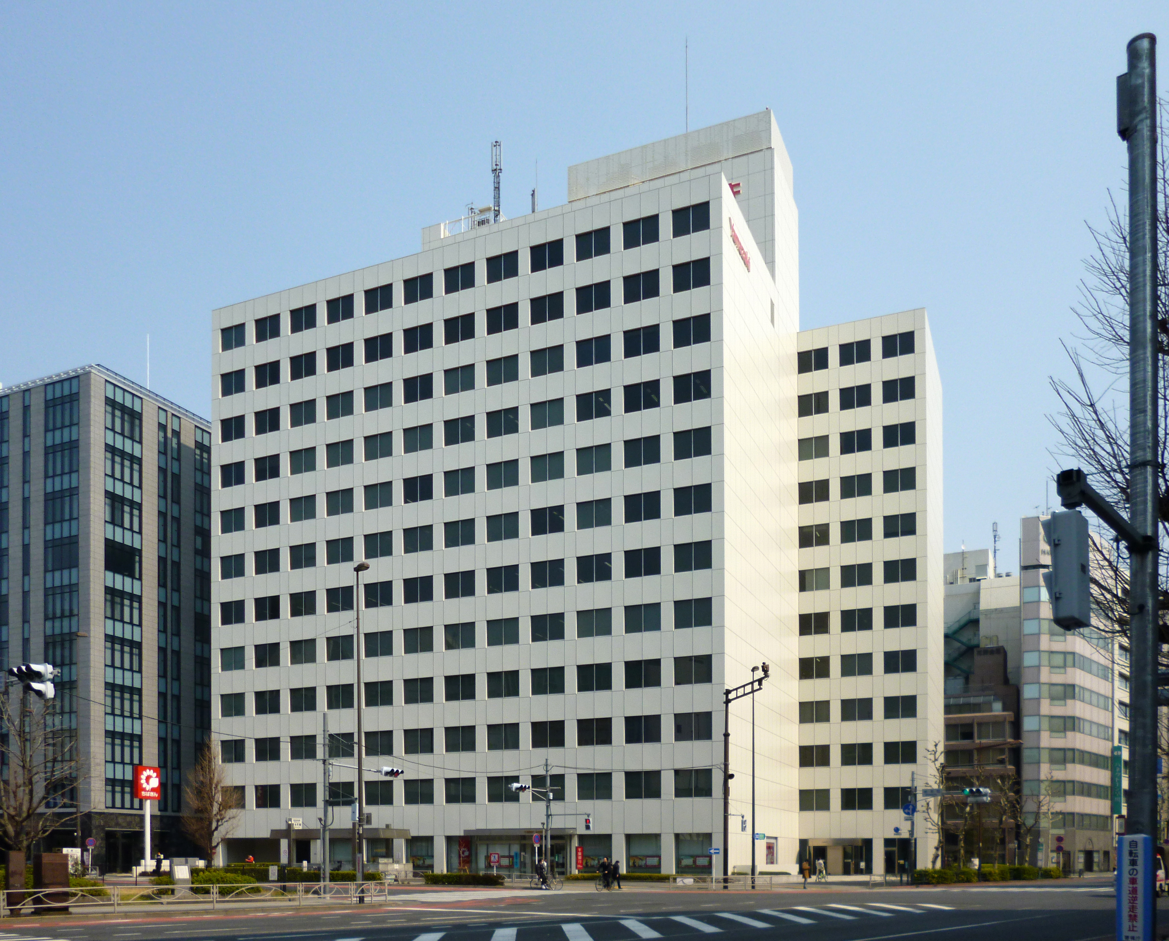 Yamazaki Iwamotochō Building in Chiyoda, Tokyo, Japan.The Headquarters of Yamazaki Baking.